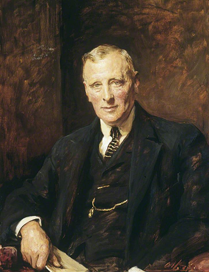 Charles Lupton (1855–1935), Chairman of the Leeds General Infirmary (1900–1921), Lord Mayor of Leeds (1915– 1916) Deputy Lieutenant of the West Riding, Yorkshire (1918)